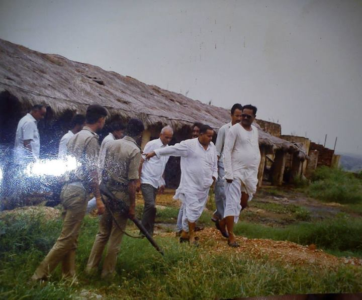 RAMDEO SINGH YADAV